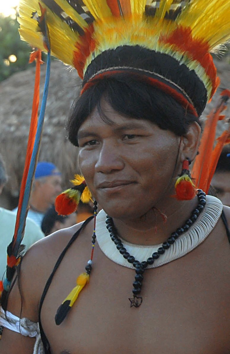 Kuikuro man at Brazil's Indigenous Games